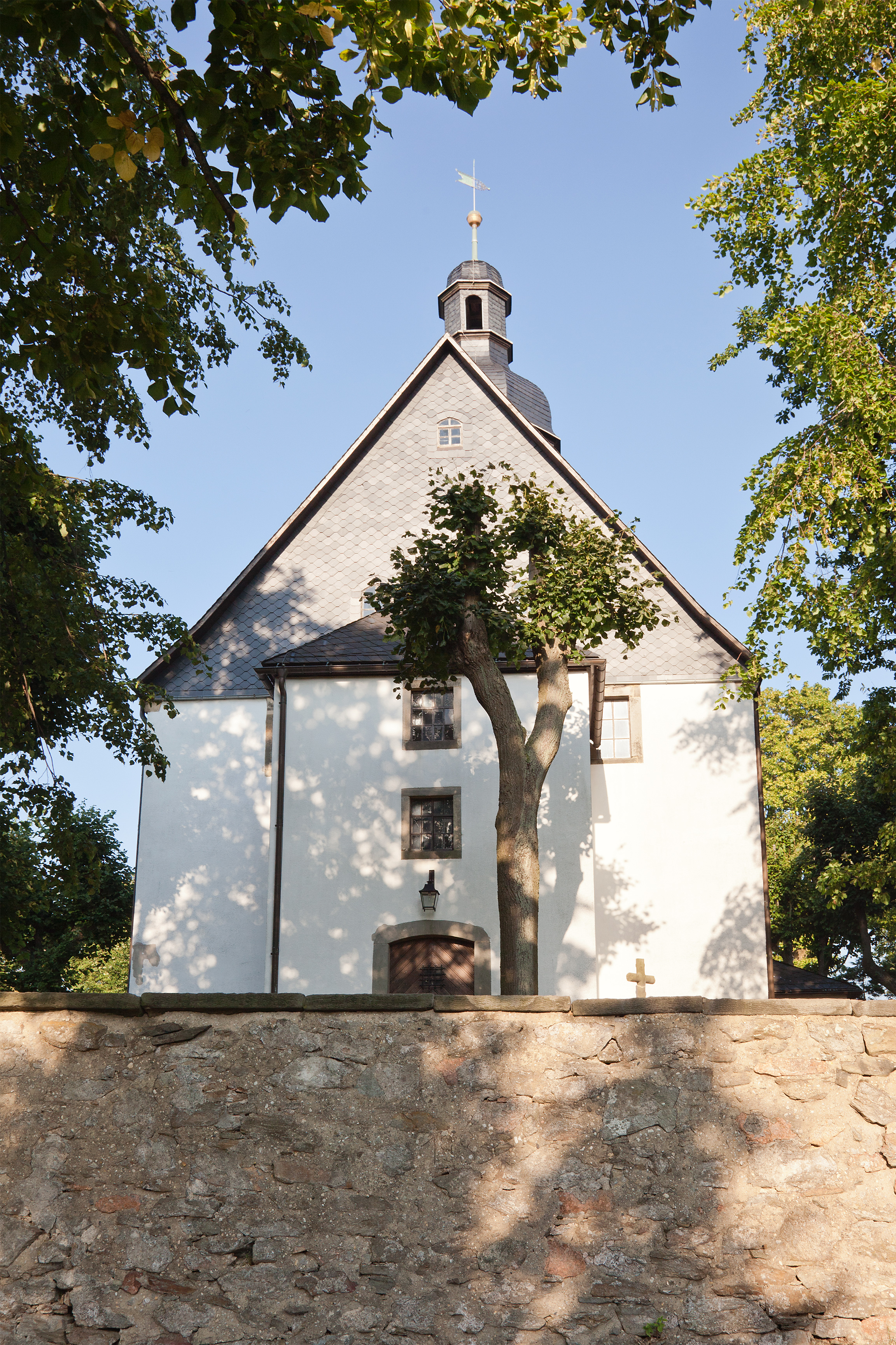 Nassau (Frauenstein), ChurchEsperanto: Nassau (Frauenstein), preĝejo